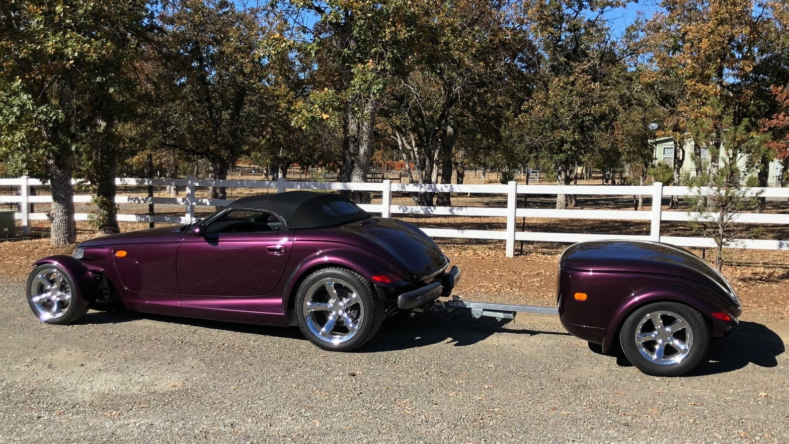 Prowler with Mopar Trailer attached